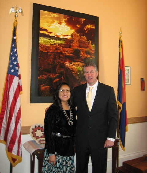 Navajo Nation First Lady Vikki Shirley and U.S. Congressman Rick Renzi (R- Arizona)